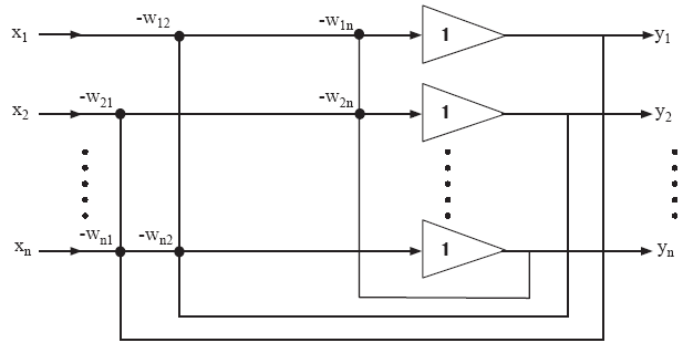 Achitecture of the HJ algorithm, that is the first which allowed blind source separation